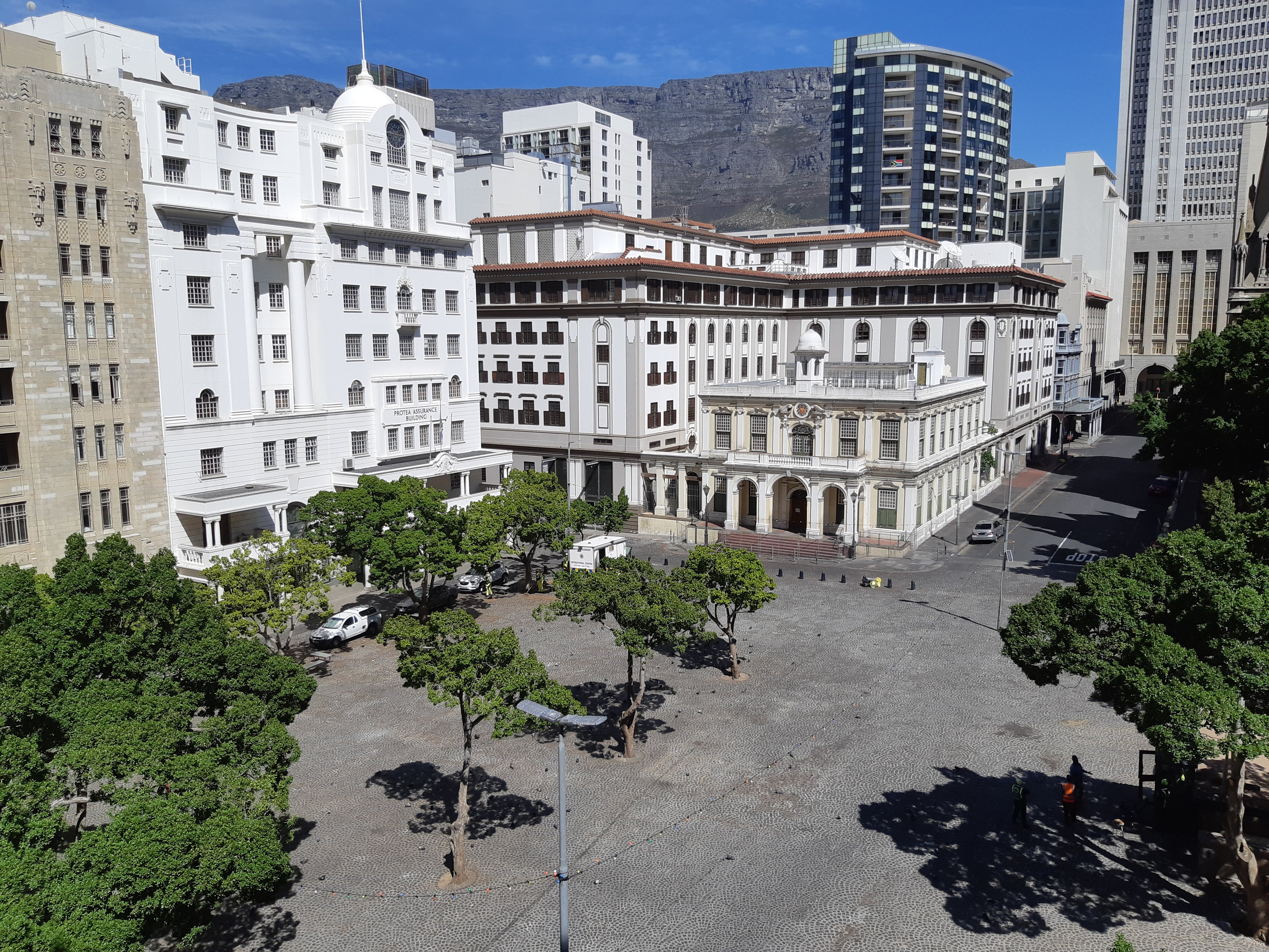 Greenmarket Square, Cape Town, South Africa on first day of the 27 March 2020 national COVID 19 lockdown. Only people exempt from the lock down such as municipal cleaners and security officials can be seen on the square.